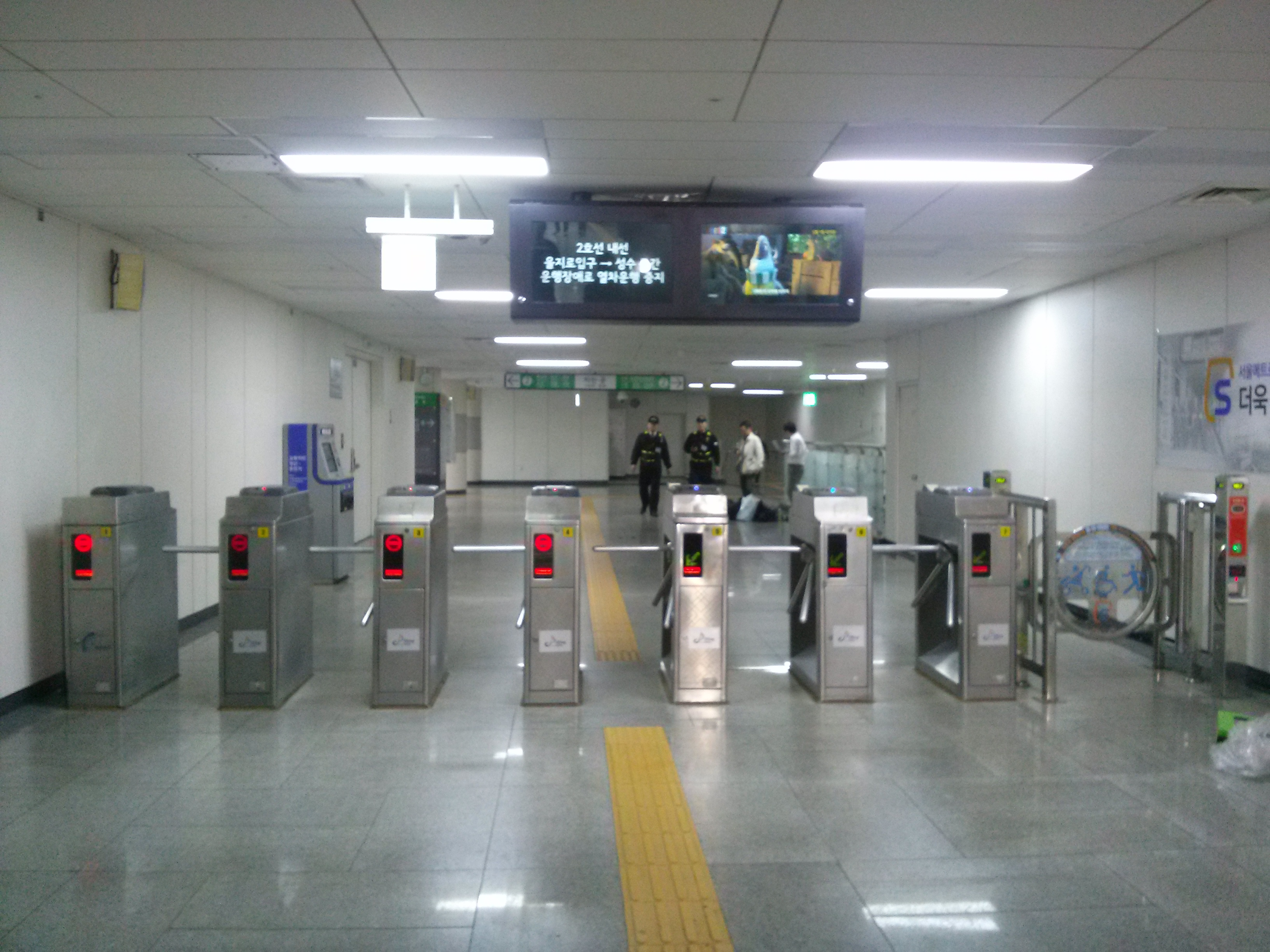 Sangwangsimni station turnstile